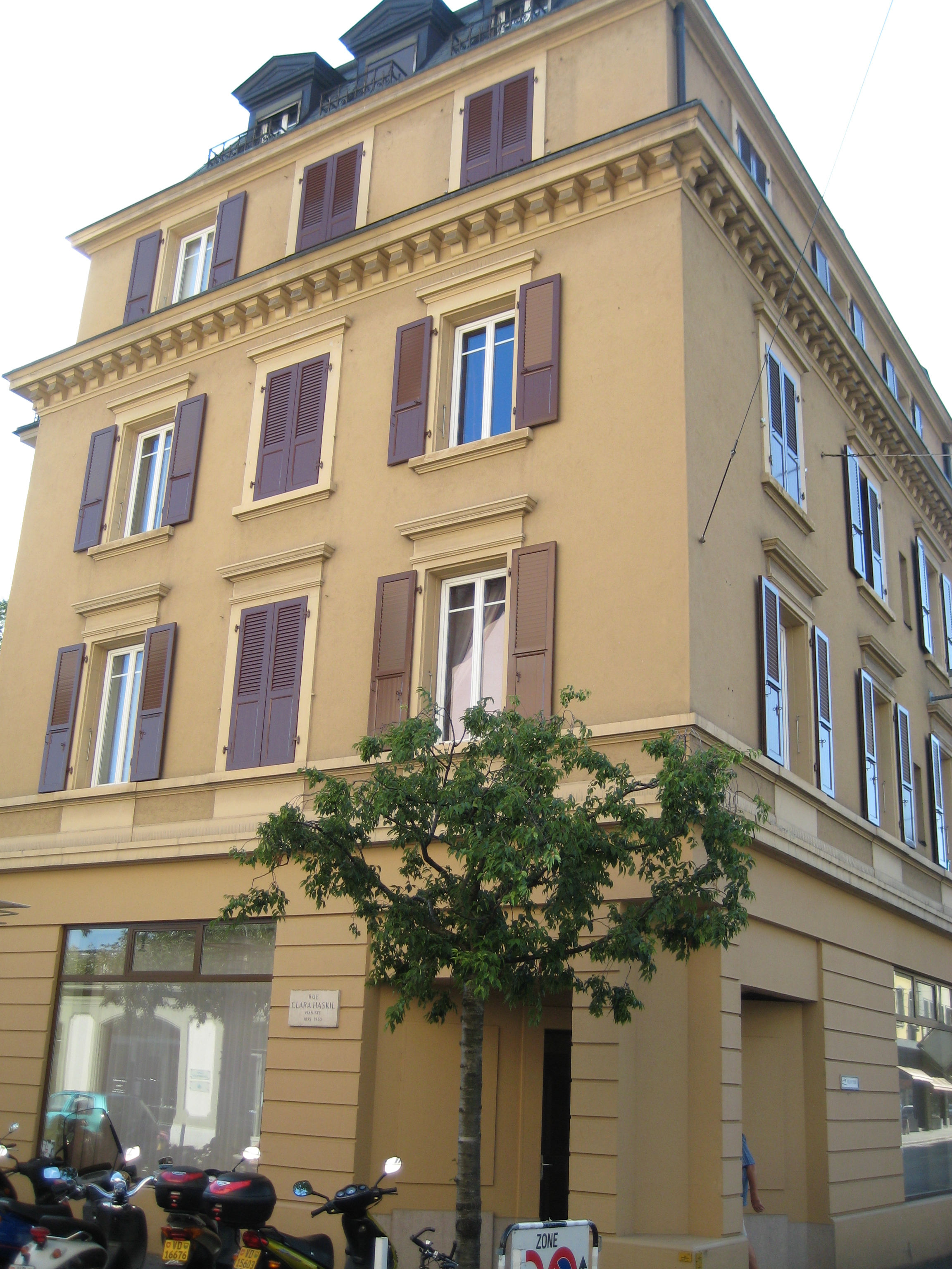 The house of Clara Haskil in Vevey, Switzerland